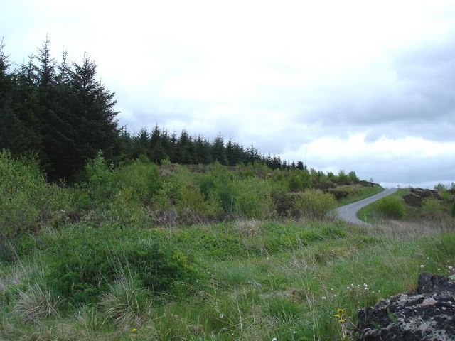 Clocaenog forest.